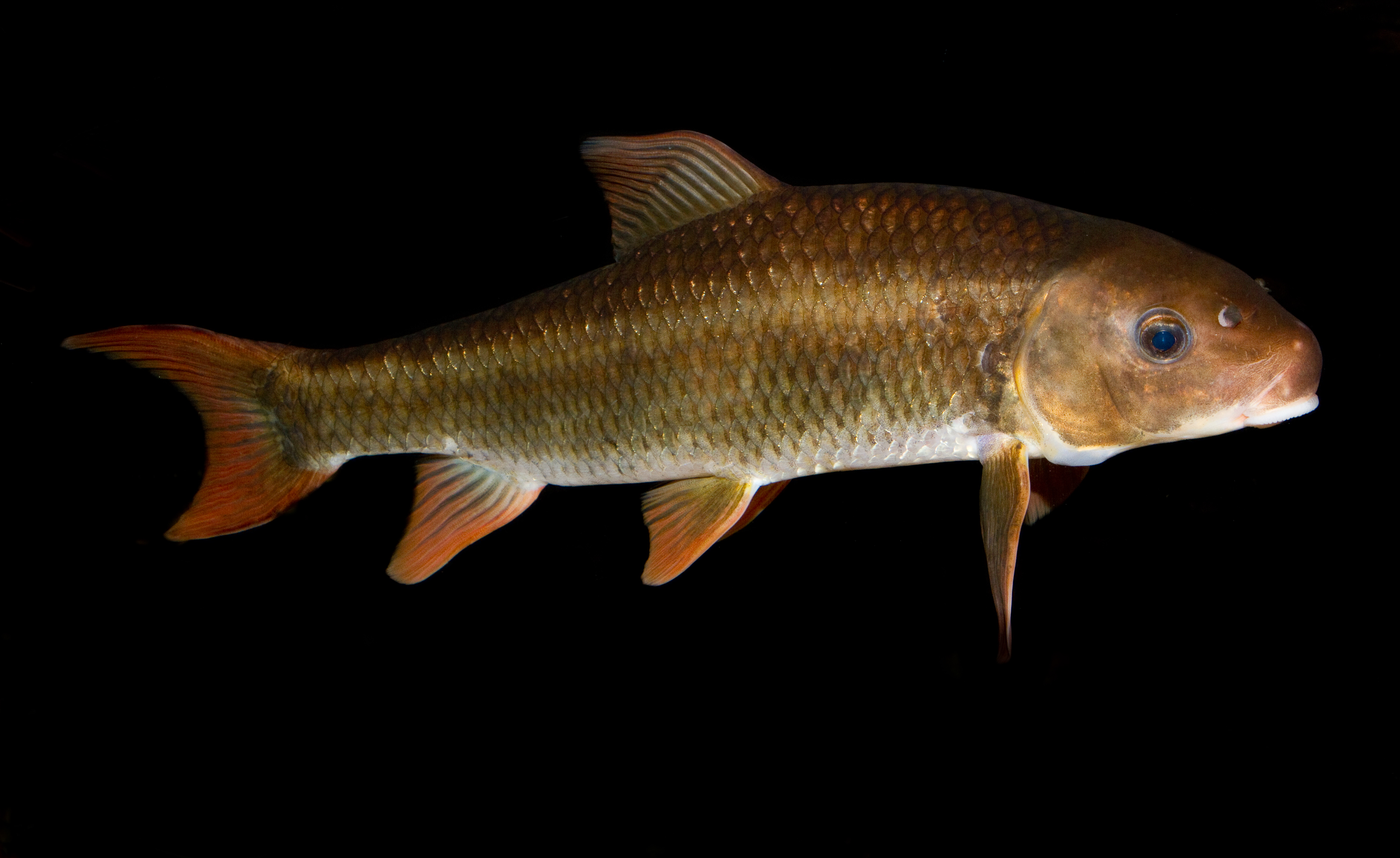 Robust Redhorse Sucker Moxostoma robustum · Can be found in certain Georgia, North Carolina, and South Carolina rivers · Largest known population is located in a 55-mile stretch of the Oconee River, in southeast Georgia · Can reach lengths of 28 inches and weigh up to 17.6 pounds. Individuals can live at least 25 years · Spawning occurs from late April to early June in water temperatures of 64 - 68 degrees F · Fertilized eggs are buried in gravel where young remain until they absorb the yolk-sac and can swim. · Has large teeth used for crushing crustaceans (Asian clams), but also feeds on aquatic insects · This species was thought to be extinct for almost 100 years and was rediscovered in the Georgia’s Oconee River in 1991